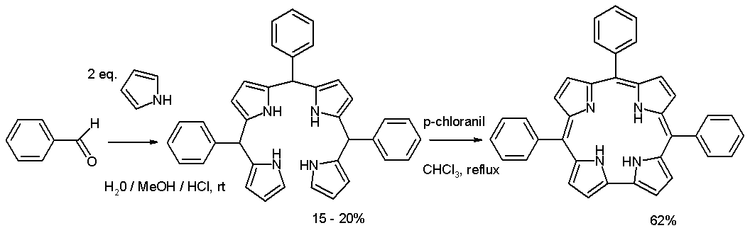 Corrole synthesis revised